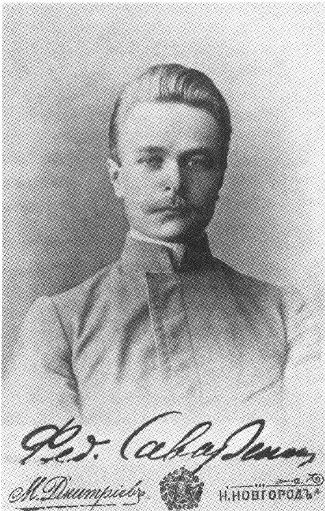 Fyodor Savarenski, student of Moscow University, 1902